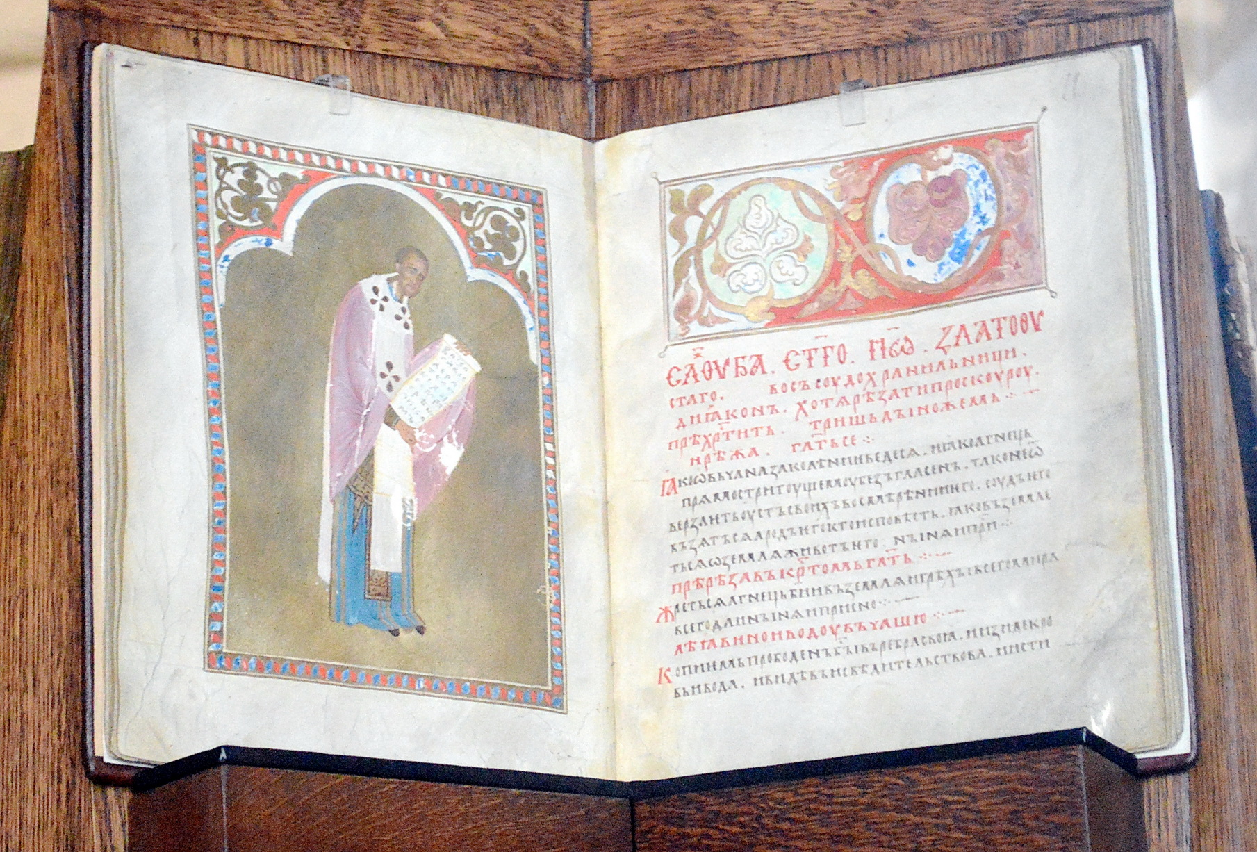 "Liturgical book of Barlaam of Khutyn", Galicia–Volhynia Rus', begin of 13 c.